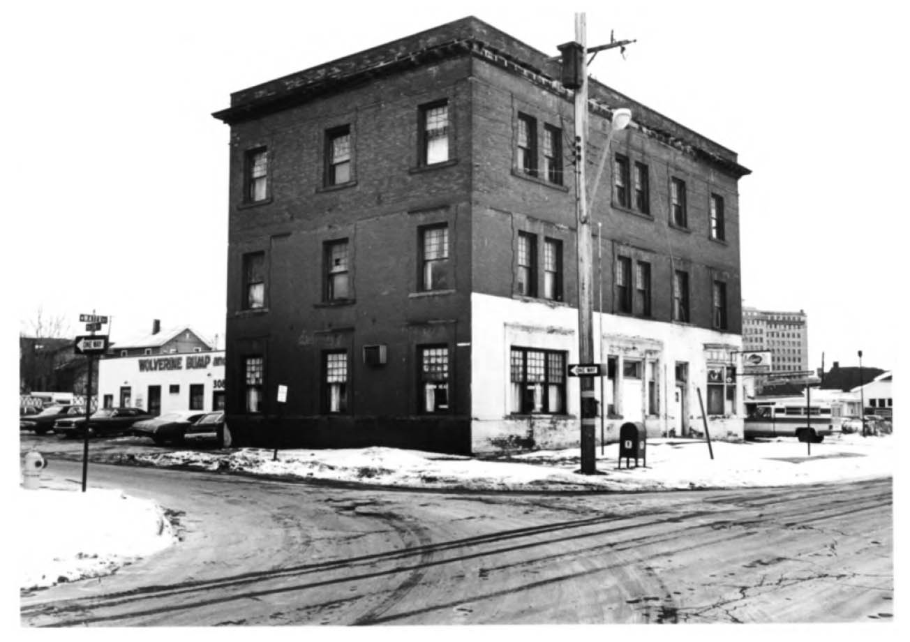 Front facade of Durant Dort Carriage Company Office, Flint MI